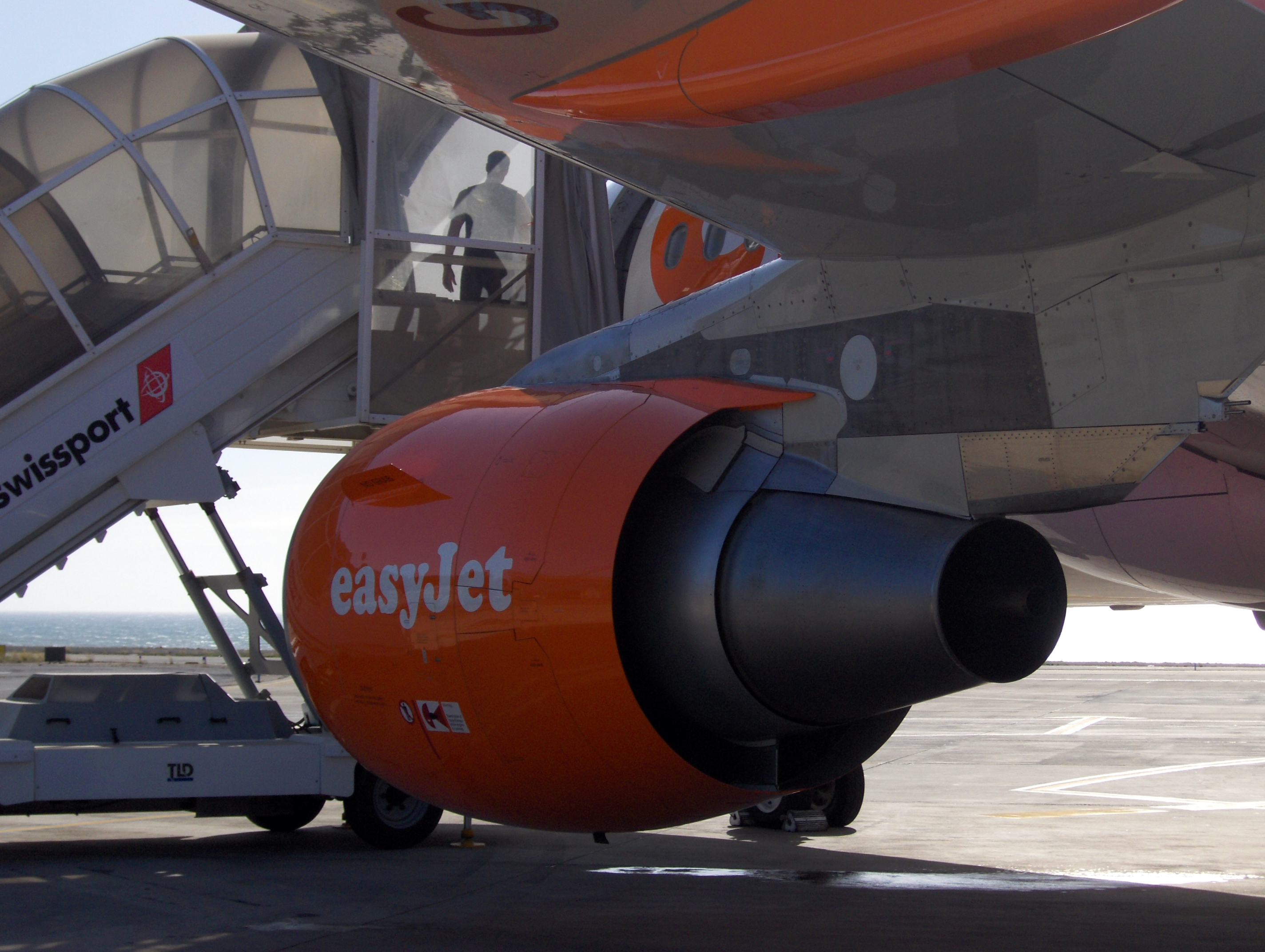 CFM56 engine on an Airbus A319